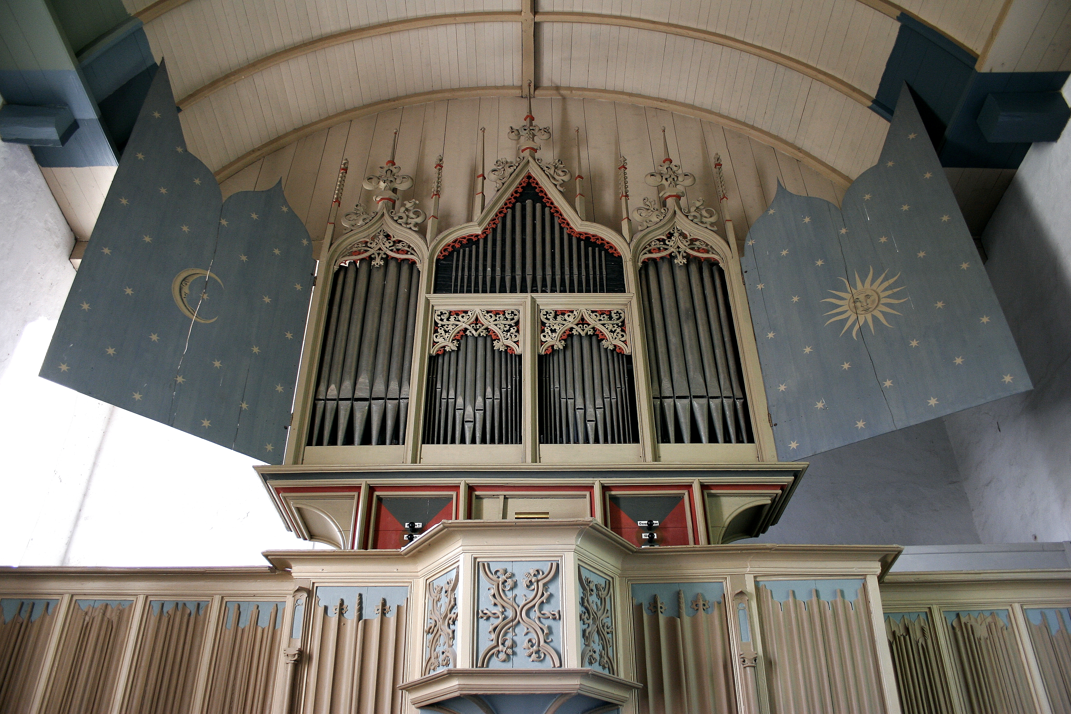 The 1457/1513 organ in Rysum, Germany, restored in 1957 by Ahrend and Brunzema.